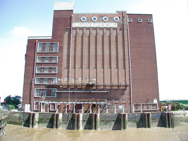 Clarence Flour Mills, Hull Looking east across the River Hull from the western end of Drypool Bridge. Clarence Flour Mills were built for Rank Ltd in 1952 around the grain silo of an older flour mill, much of which was destroyed by bombing in World War II. Rank became Rank Hovis McDougall (RHM) in 1962. The original mill was built for Joseph Rank by city architect and fellow methodist Alfred Gelder in 1891. The lighter coloured brickwork with the writing on it is what remains of the original silo. Joseph Rank and Alfred Gelder lived as close neighbours at 365-371 Holderness Road and Joseph's son Joseph Arthur was born there in December 1888 (J. Arthur grew up to become a world-renowned film producer and distributor and founder of the Rank Organisation). The windmill which was the site of the original family business still stands on Holderness Road opposite East Park. The huge brick buildings at Clarence Flour Mills have been disused for a few years now and may soon be pulled down or possibly remodelled as the east bank of the River Hull is scheduled for redevelopment. Workmen have already begun dismantling pipes and other metalwork sticking out over the path along the wharf.